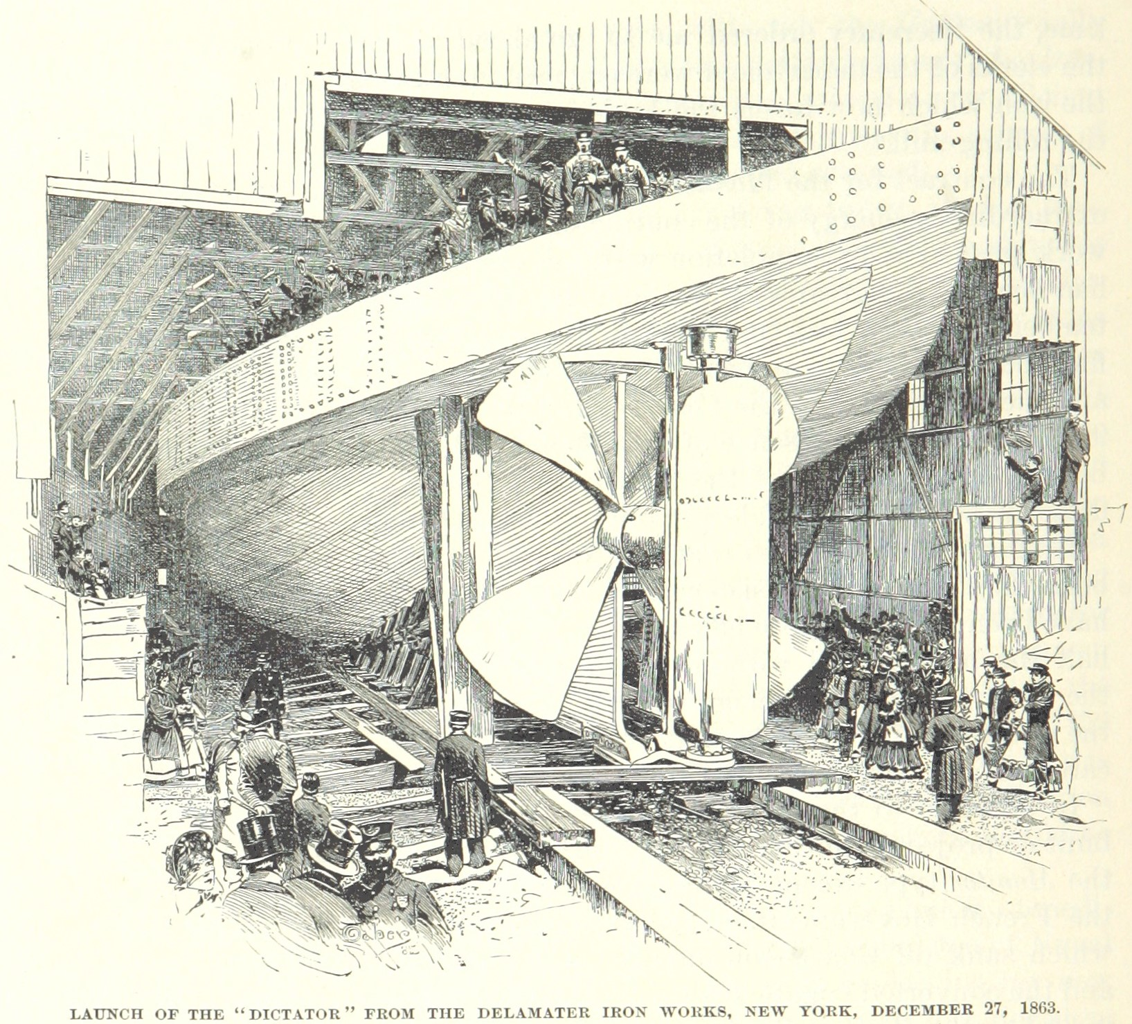 The launch of the ironclad USS Dictator.